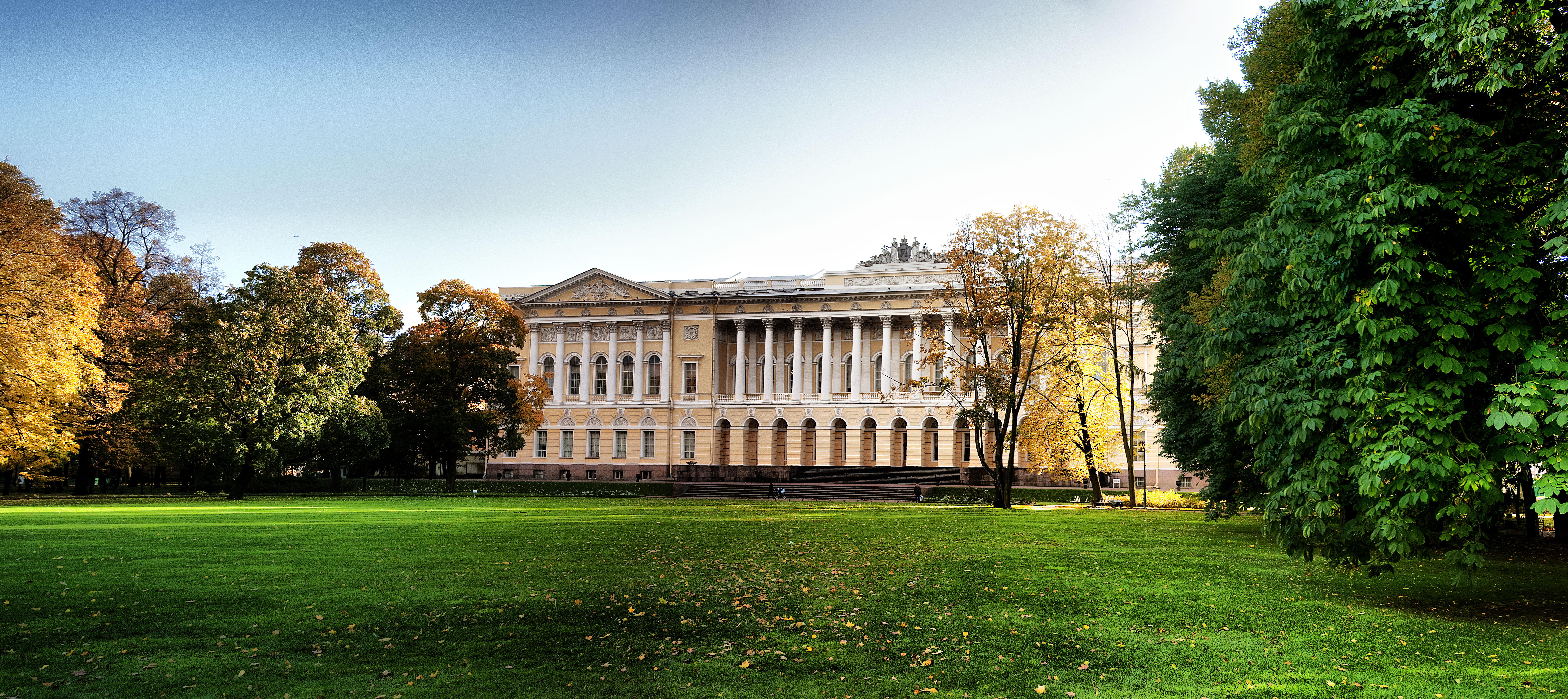 Mikhaylovsky garden, Saint Petersburg